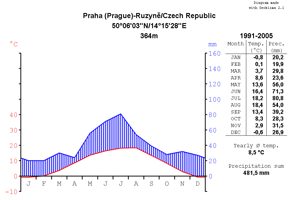 climate chart of Prague-Ruzyně, Czech Republic, for the period of time from 1991 to 2005, in the format by Walter and Lieth, metric, °Celsius and millimeters, chart made with Geoklima 2.1, label in English